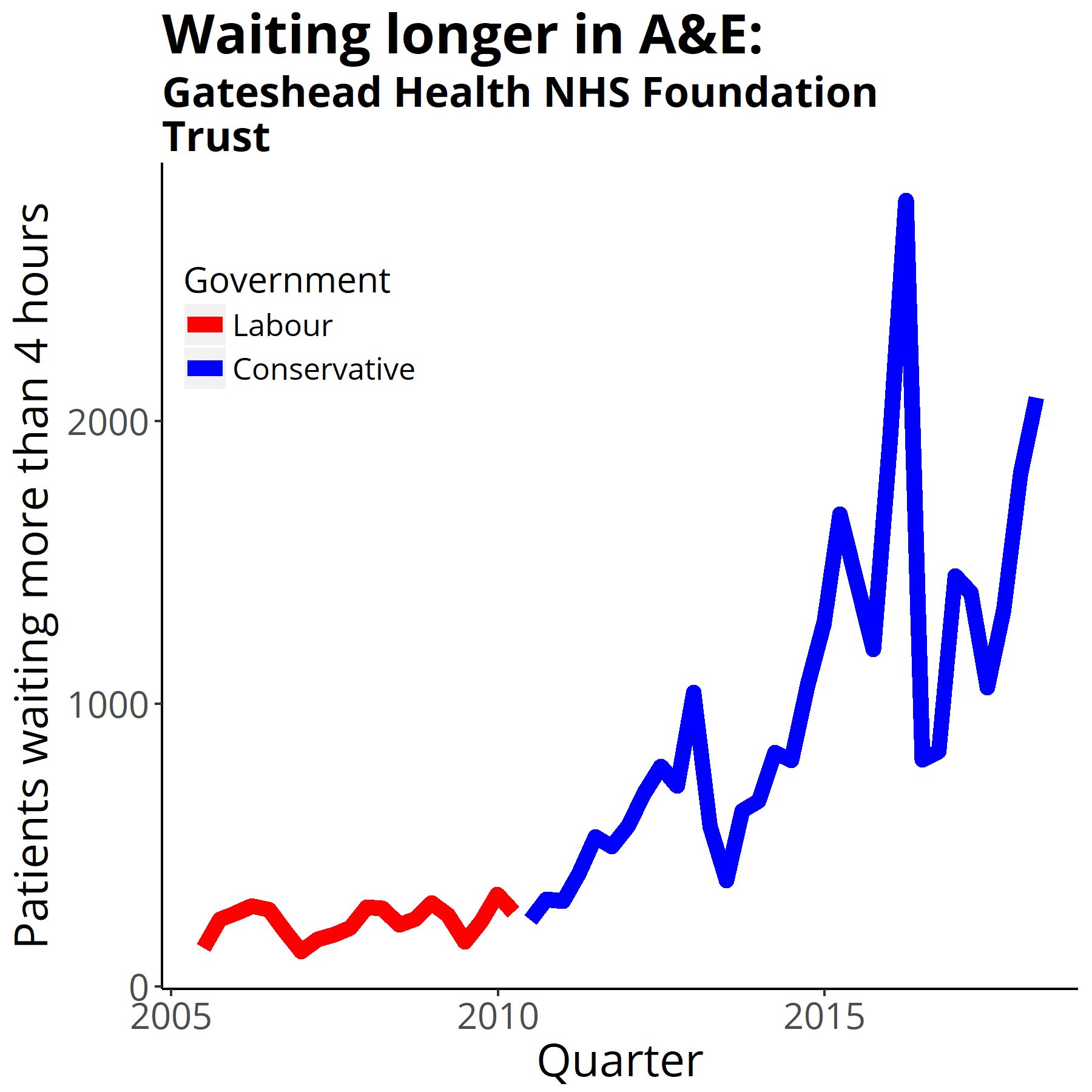 Four-hour target in the emergency department quarterly figures from NHS England Data from